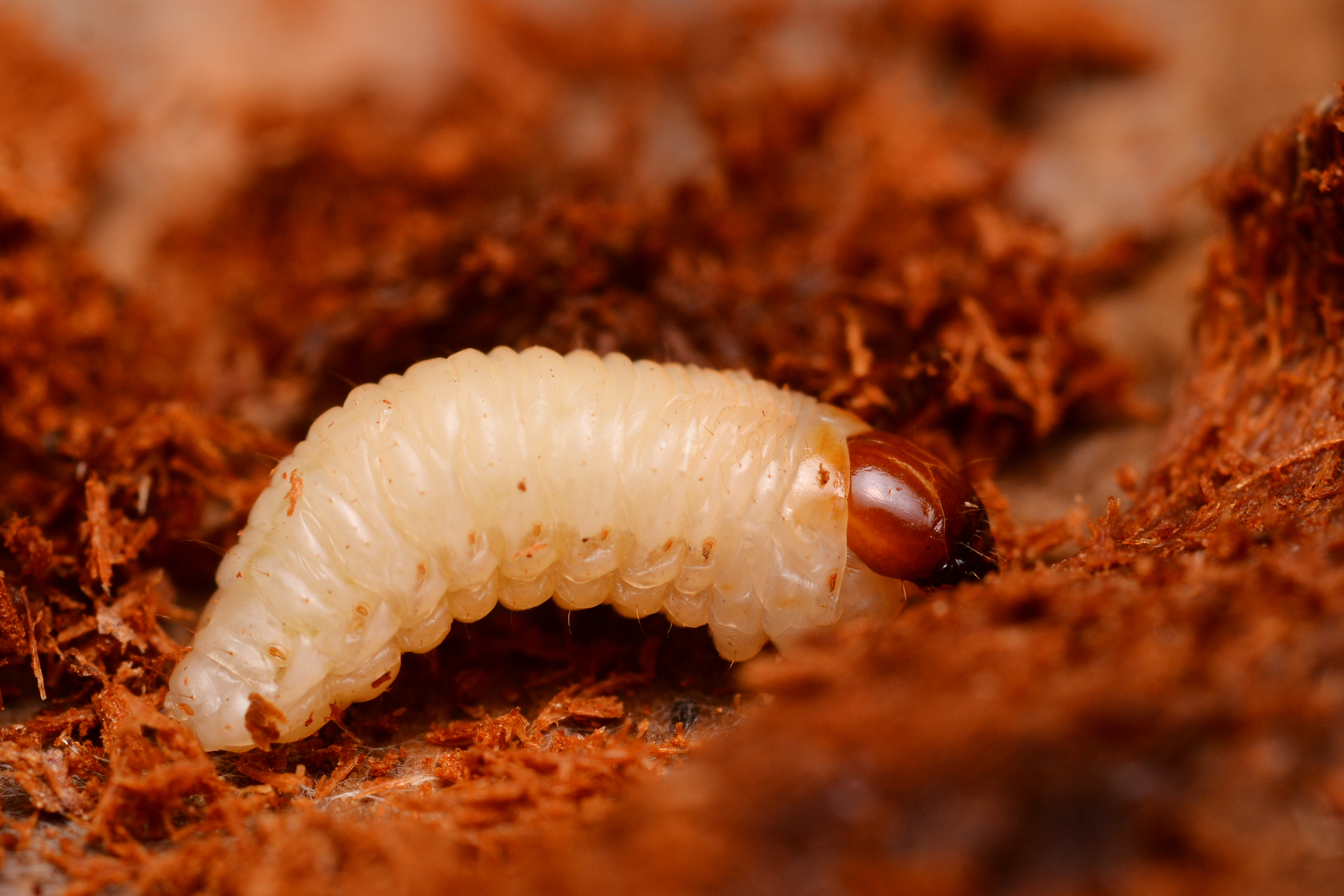 Pissodes cfr pini (Coleoptera - Curculionidae) larva found under the bark of Pinus strobus Belgium, Resteigne, 19/05/2016